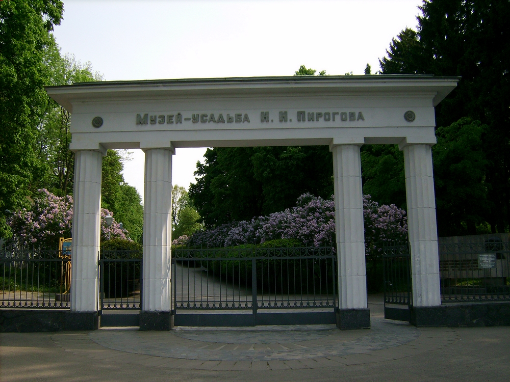 Mansion-museum of Nikolay Ivanovich Pirogov